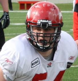 John Hashem at Training camp